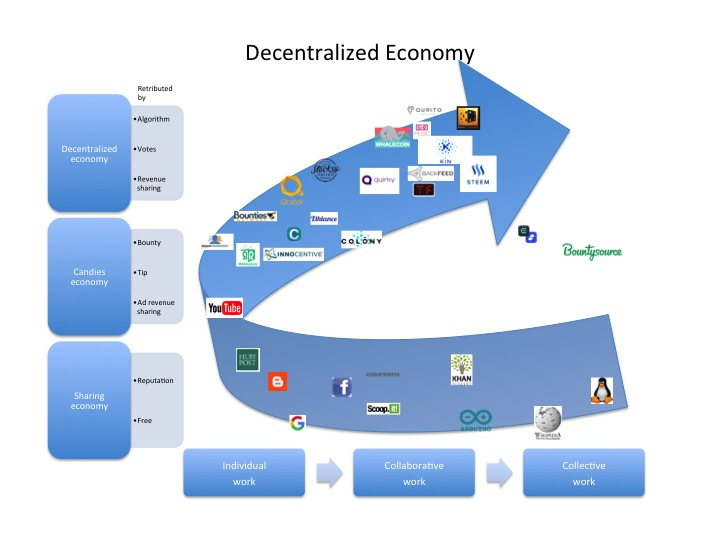 DAOs drive to decentralized economy. Tokens allow contribution to collective works micropayments and tracks metrics allow algorithmic measures of contribution utility.